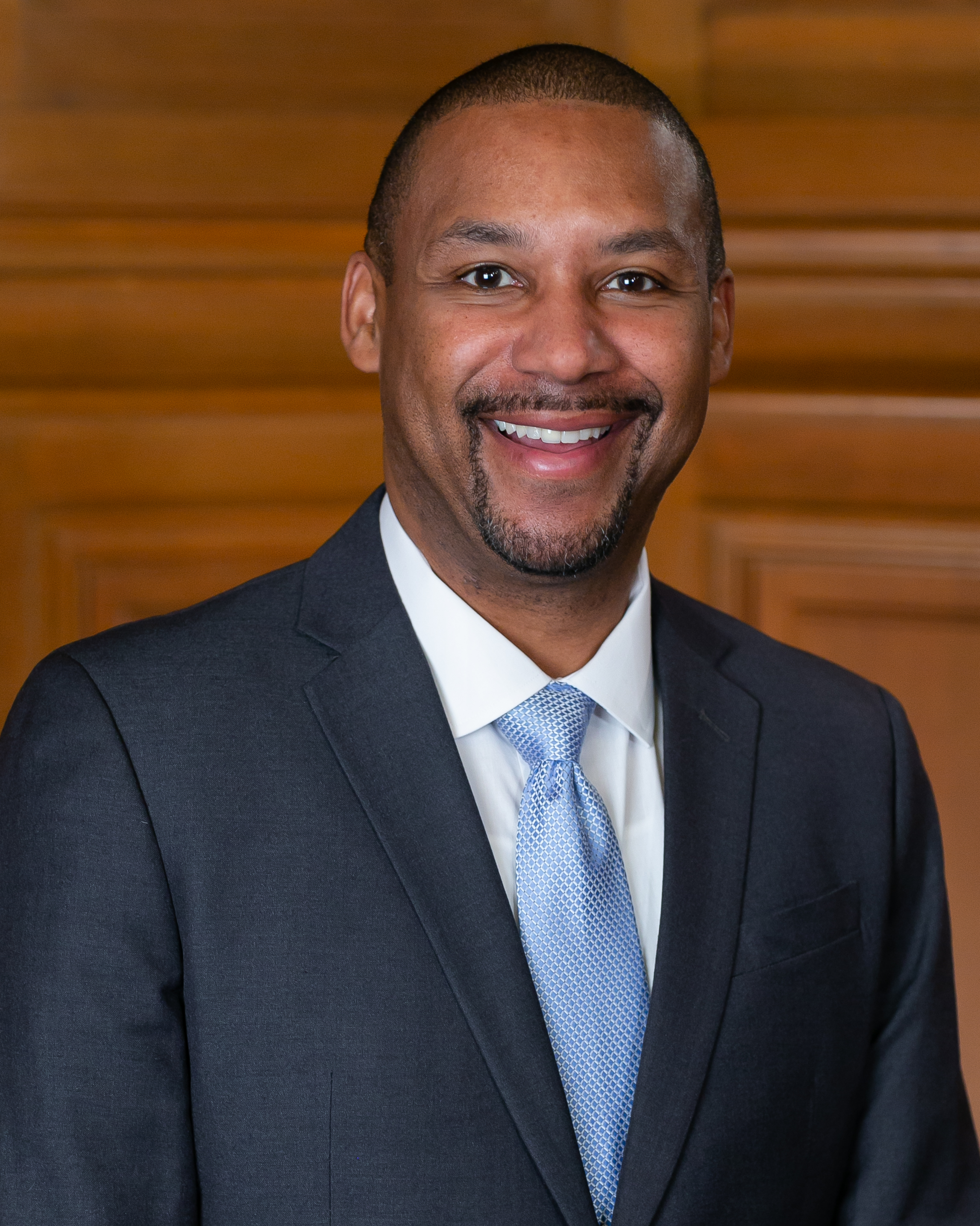 Official portrait of Shamann Walton, San Francisco Board of Supervisors Member for District 10